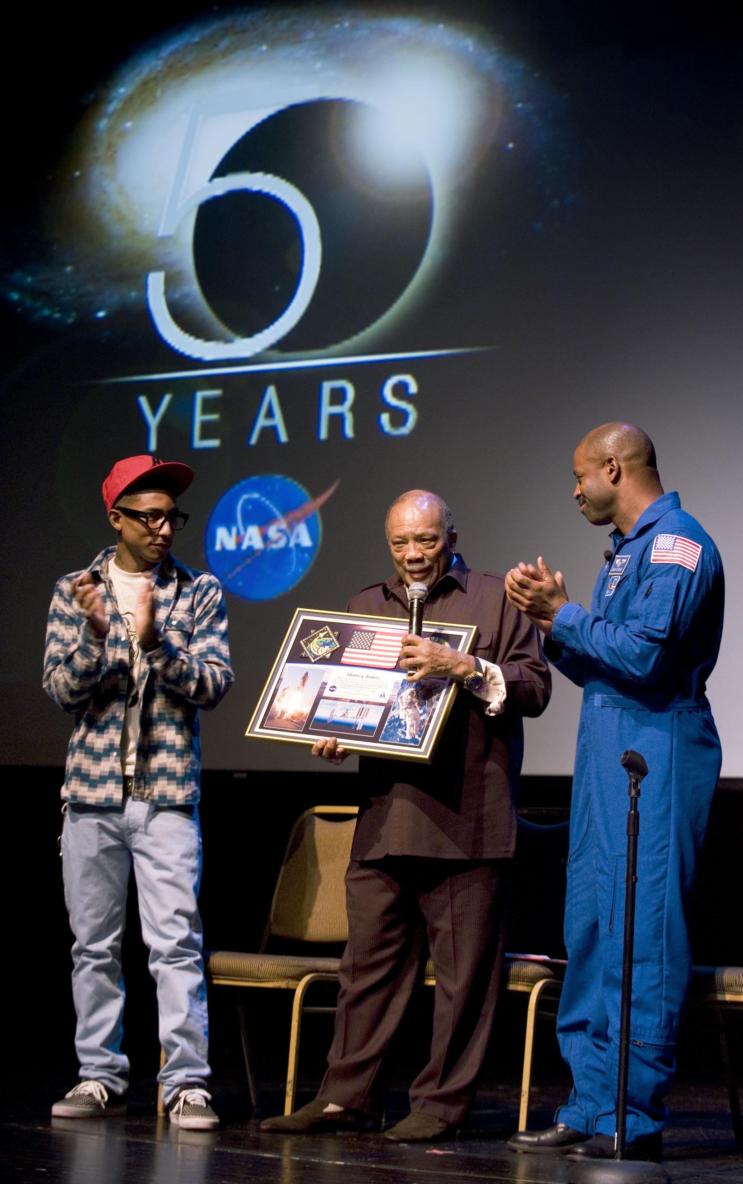 Music legend Quincy Jones, center, was presented with a montage by astronaut Leland Melvin, right, as hip-hop artist/producer Pharrell Williams looks on at a ceremony in Washington, D.C. On Thursday, Sept. 25, 2008, the three participated in a presentation to over 300 students at the Town Hall Education Arts and Recreation Campus, also known as THEARC, which opened in 2005 and represents a partnership of nine community organizations, including the Levine School of Music, Children’s National Medical Center and the Boys and Girls Club of Greater Washington.